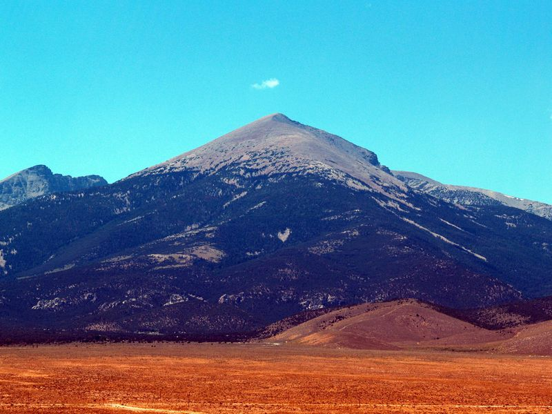 Jeff Davis Peak looking toward the west from Baker Archaeology Village.